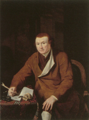 Portrait of John Hunter by his brother-in-law, Robert Home, painted probably in 1784 (date after Caroline Grigson, Anne Hunter's Life, in: The Life and Poems of Anne Hunter. Haydn's Tuneful Voice, Liverpool 2009, p. 34, footnote 86). Royal College of Surgeons of England.